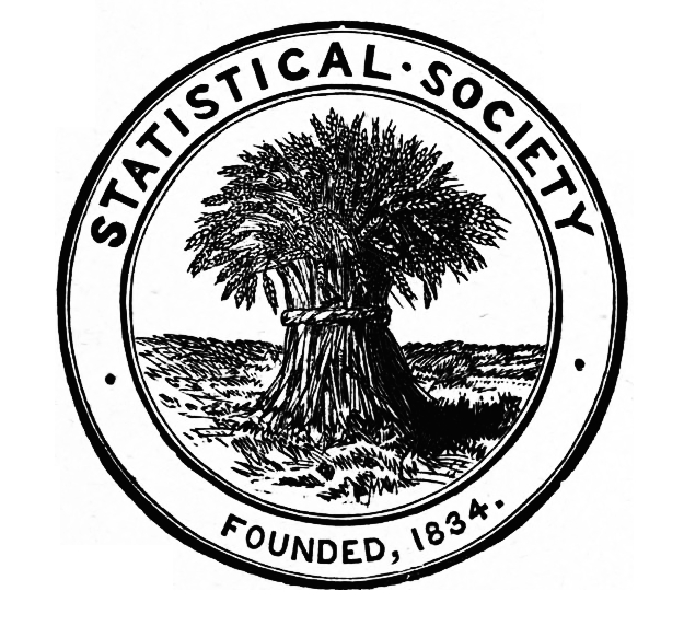 Logo of the Statistical Society of London in 1884